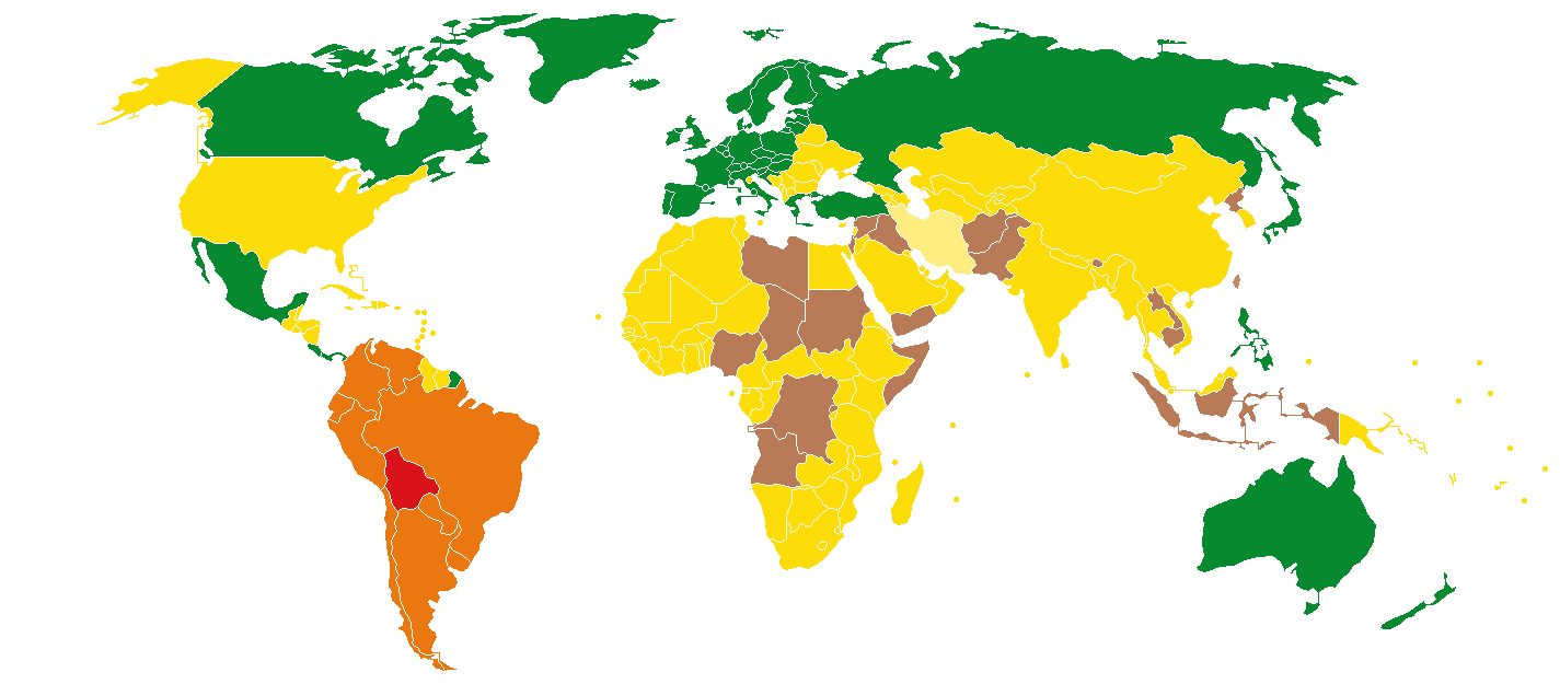 Visa policy of Bolivia Bolivia Visa-free (Passport and ID card entry) Visa-free (Passport entry) Visa on arrival (Special rules for US and Iran) Visa required (Special rule for China, Hong Kong and Macau)